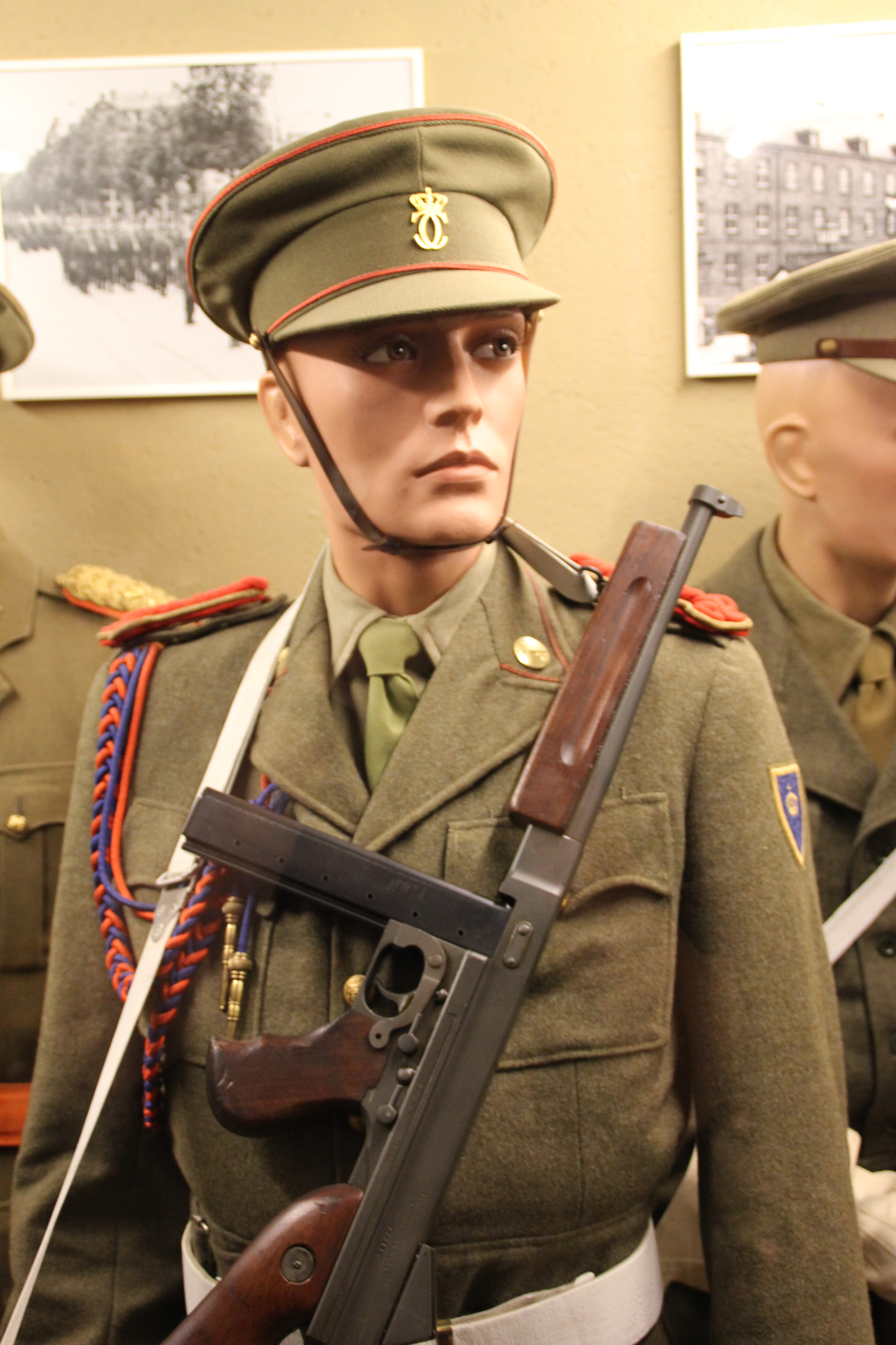 A Luxembourg military uniform from the post-war period (1950-60s?)